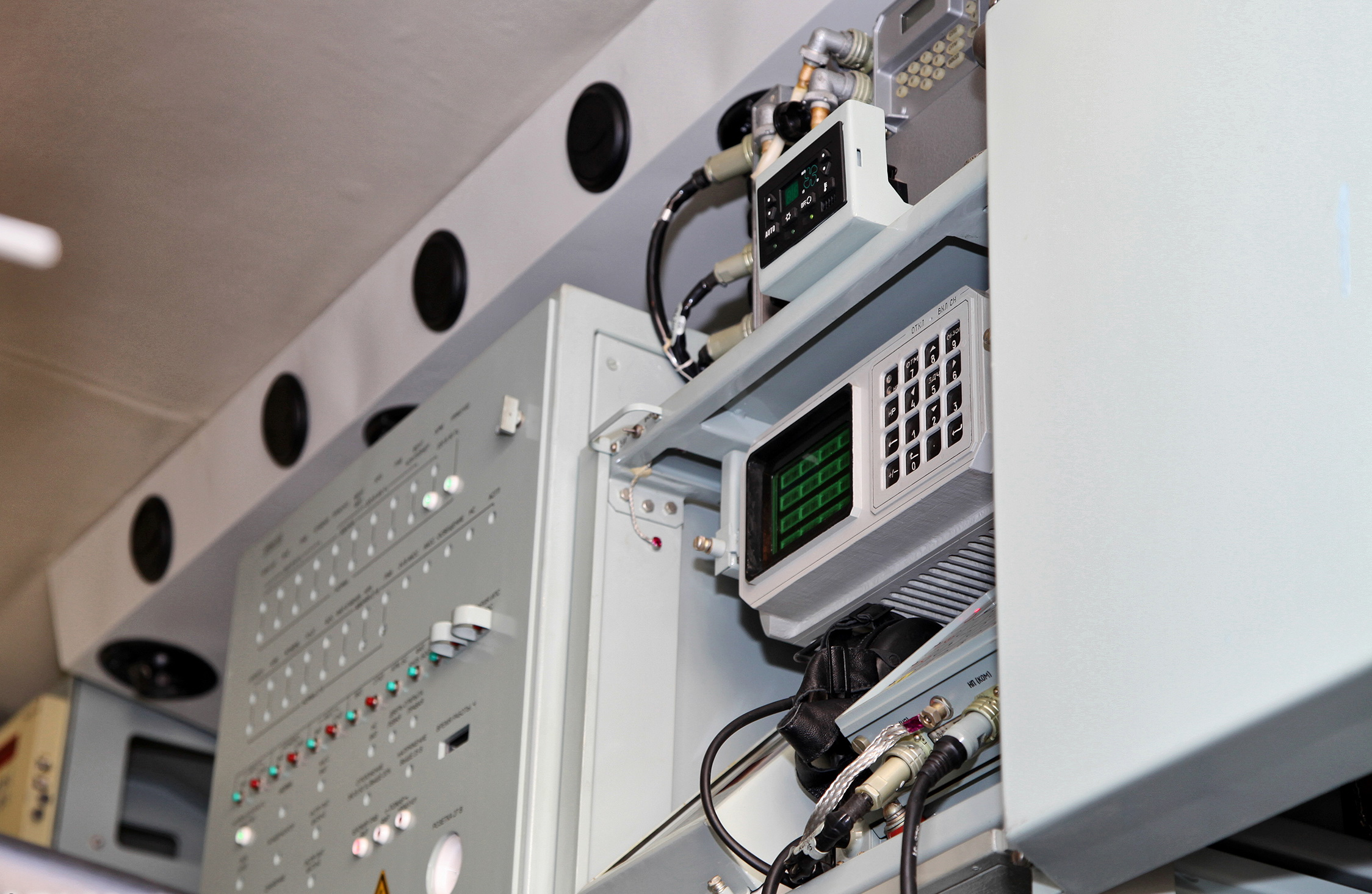 New radar 1RL-123E for Pantsir-S1.